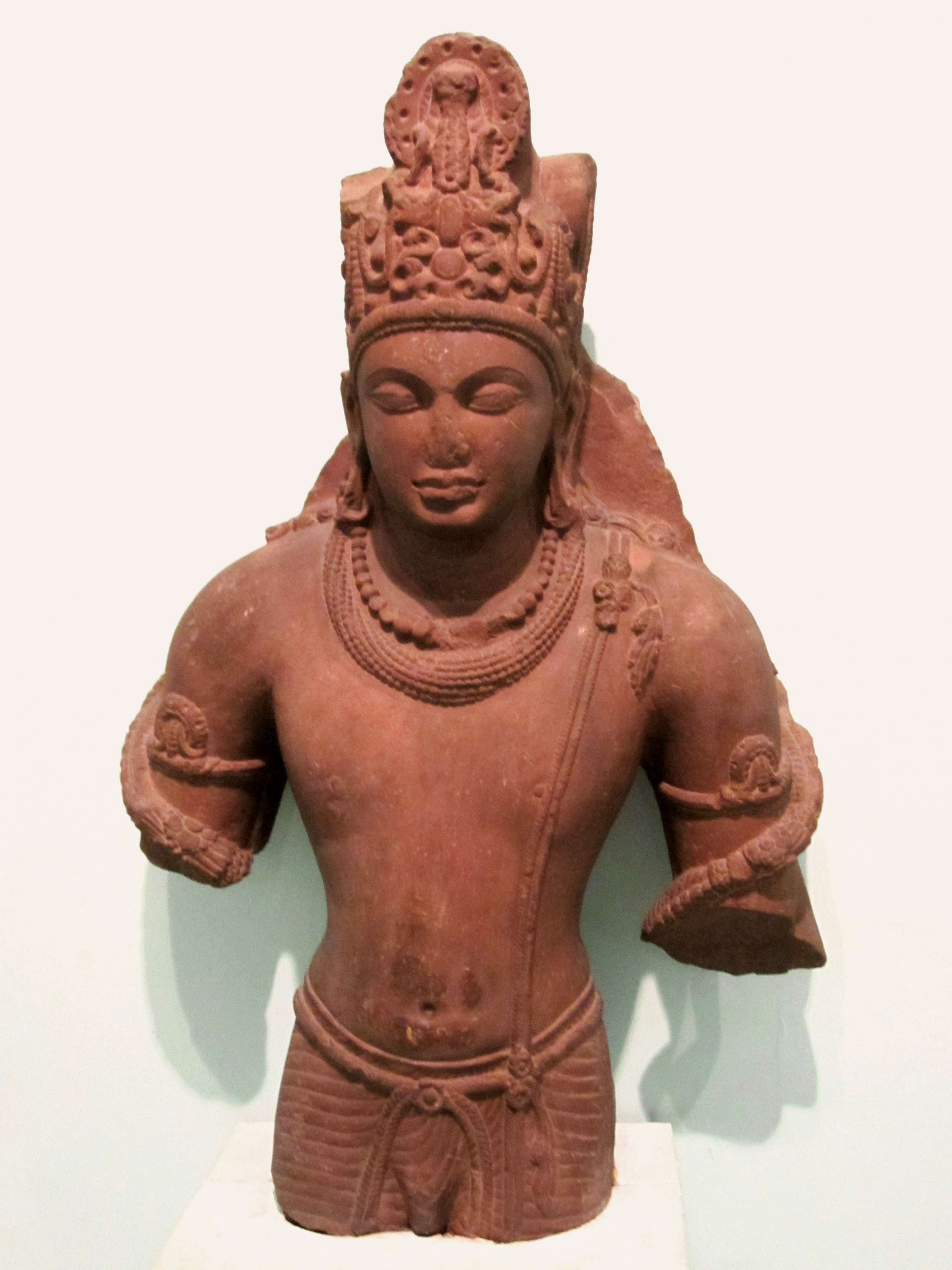 Vishnu (red sandstone). Gupta (mid. 5th century AD), Mathura, U.P. HxWxD (cm): 109x67x22. (Information from museum plaque.) National Museum, New Delhi.